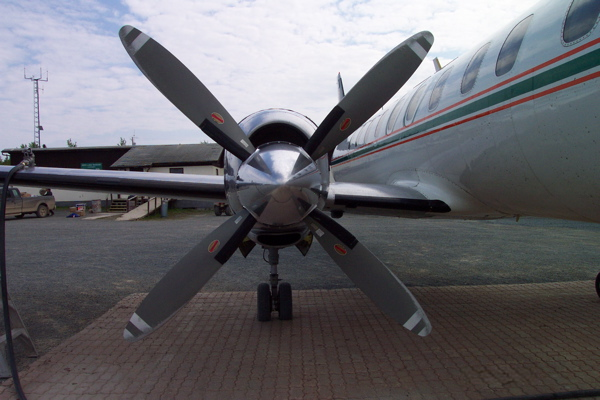 Perimeter Fairchild Swearingen Metroliner propeller